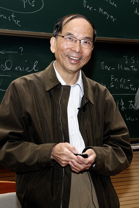 Photo of C.F. Jeff Wu taken during his Einstein Lecture at the Chinese Academy of Sciences in 2011. Other information This photo was commissioned by the owner, C. F. Jeff Wu.